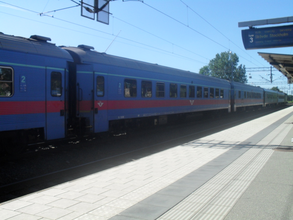 A Swedish InterCity-trains on the Falköping Central.